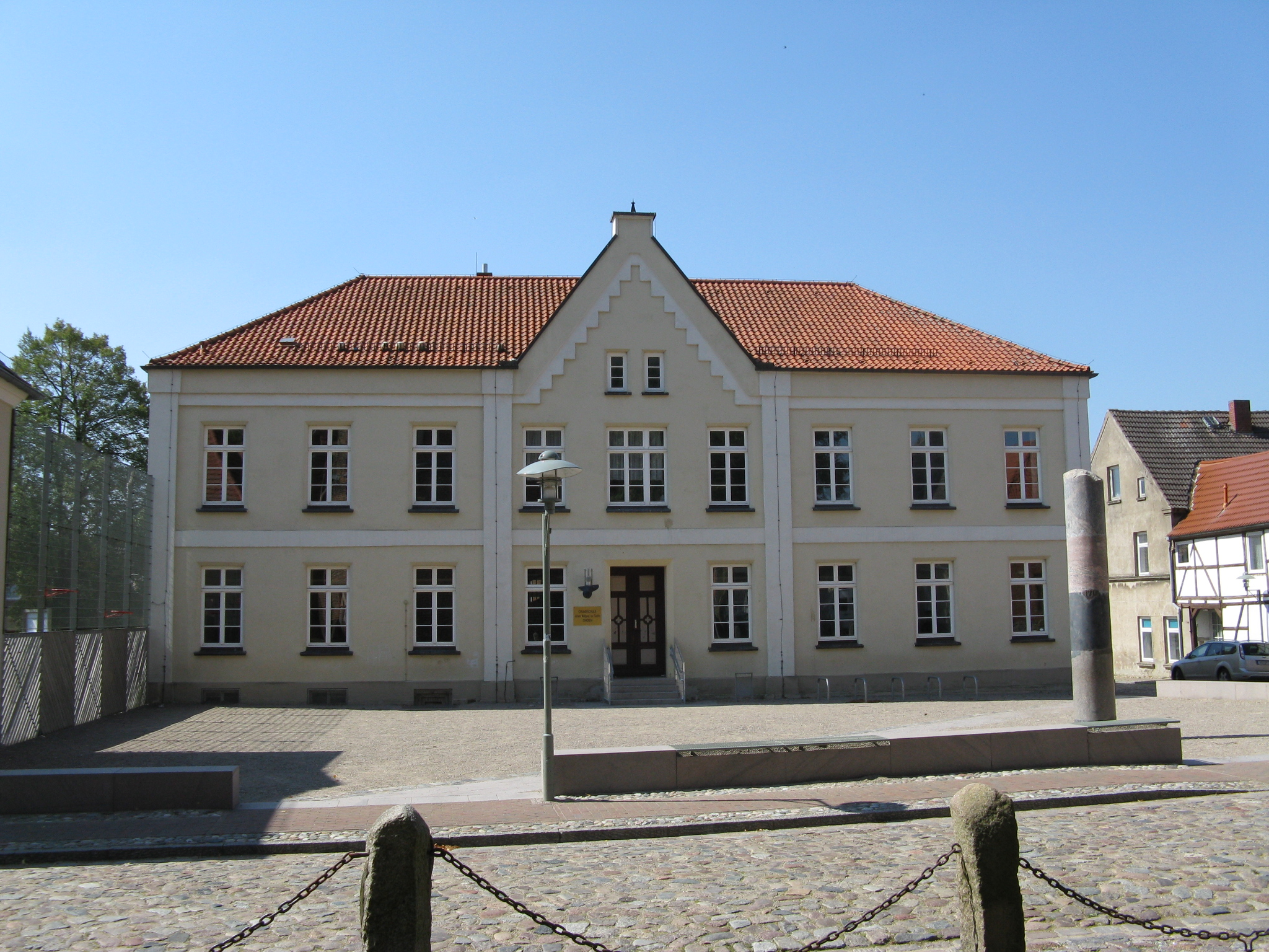 Elementary school in Gnoien, disctrict Güstrow, Mecklenburg-Vorpommern, Germany